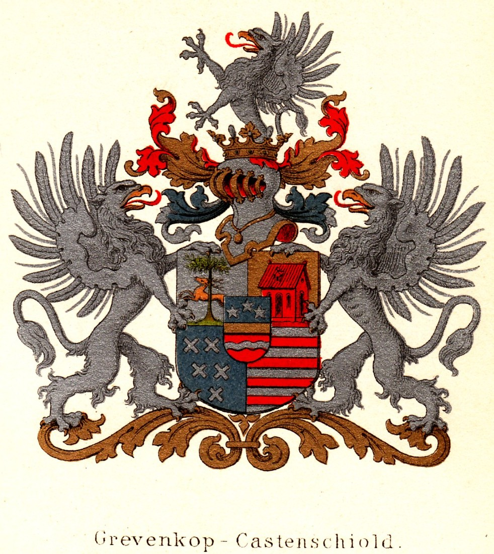 Coat of arms of the Grevenkop-Castenschiold family